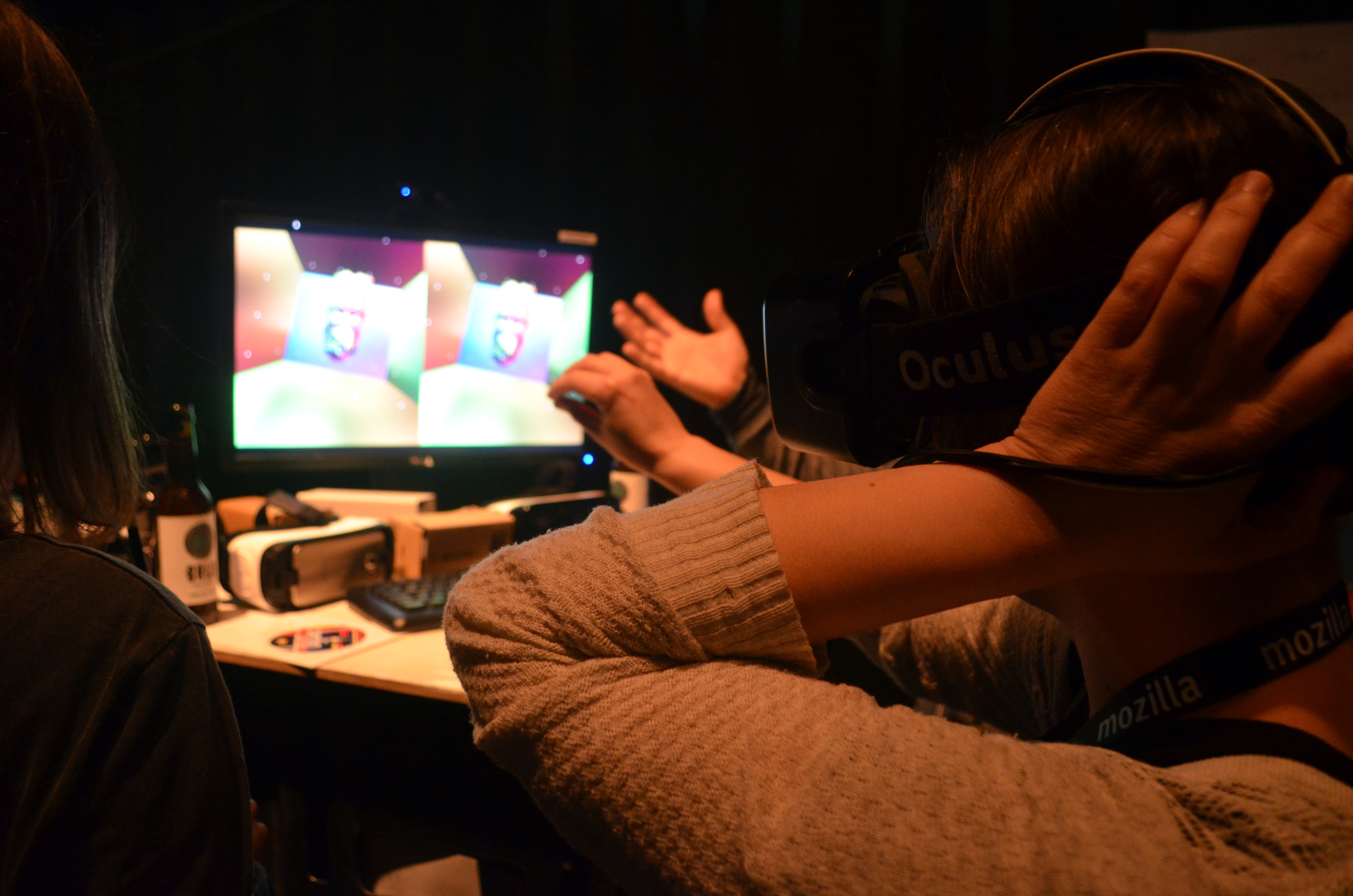 A visitor at Mozilla Berlin Hackshibition trying Oculus Rift experience in the event space inside Platoon Kunsthalle, Berlin, Germany.